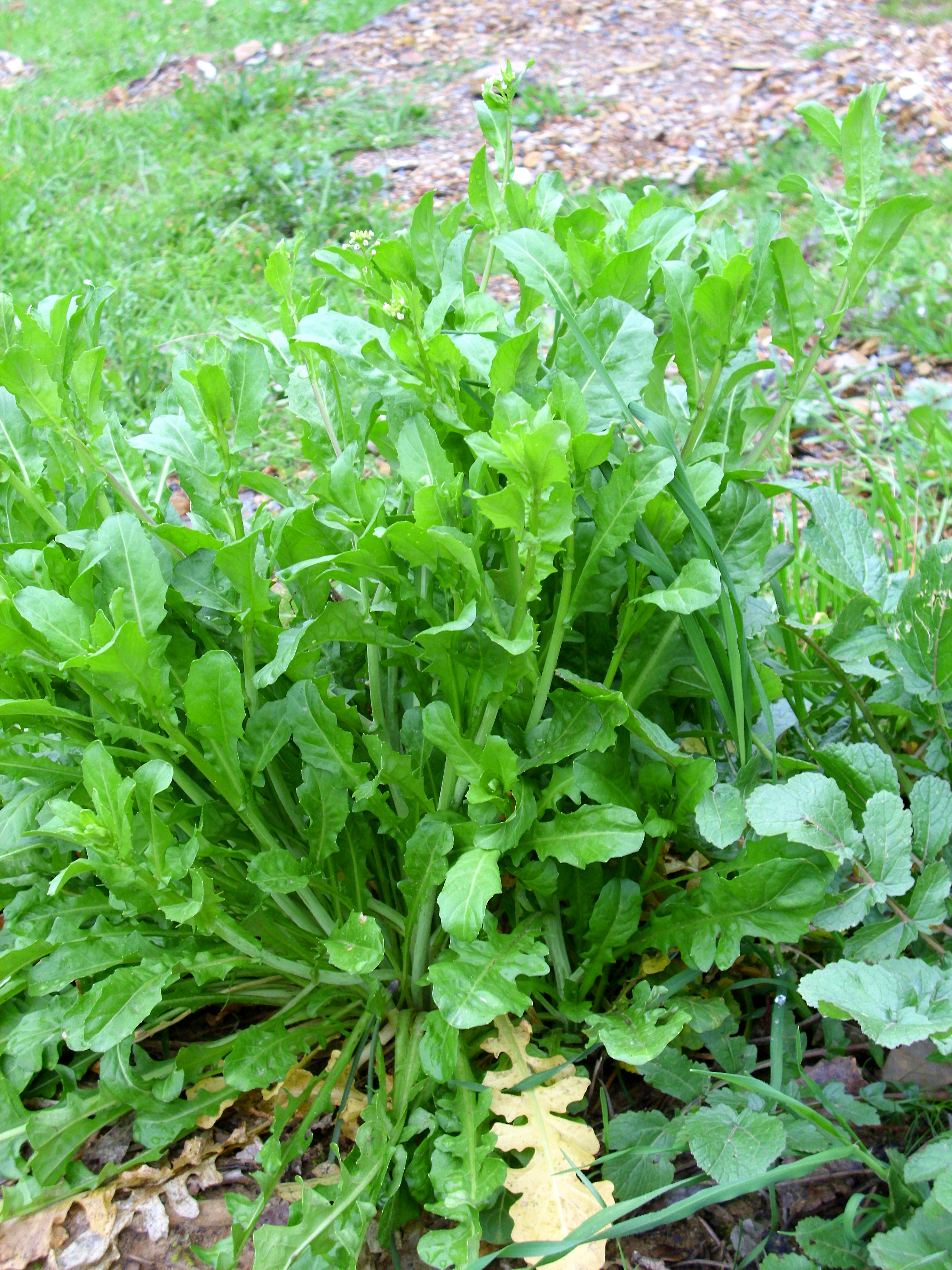 Lepidium heterophyllum habit, in Sierra Madrona, Spain.